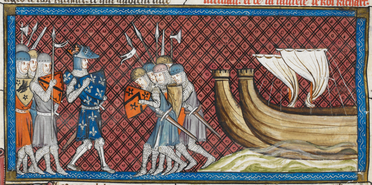 Philip Augustus (Philip II of France) arriving in Palestine; detail of a miniature from BL Royal MS 16 G vi, f. 350v. Held and digitised by the British Library.